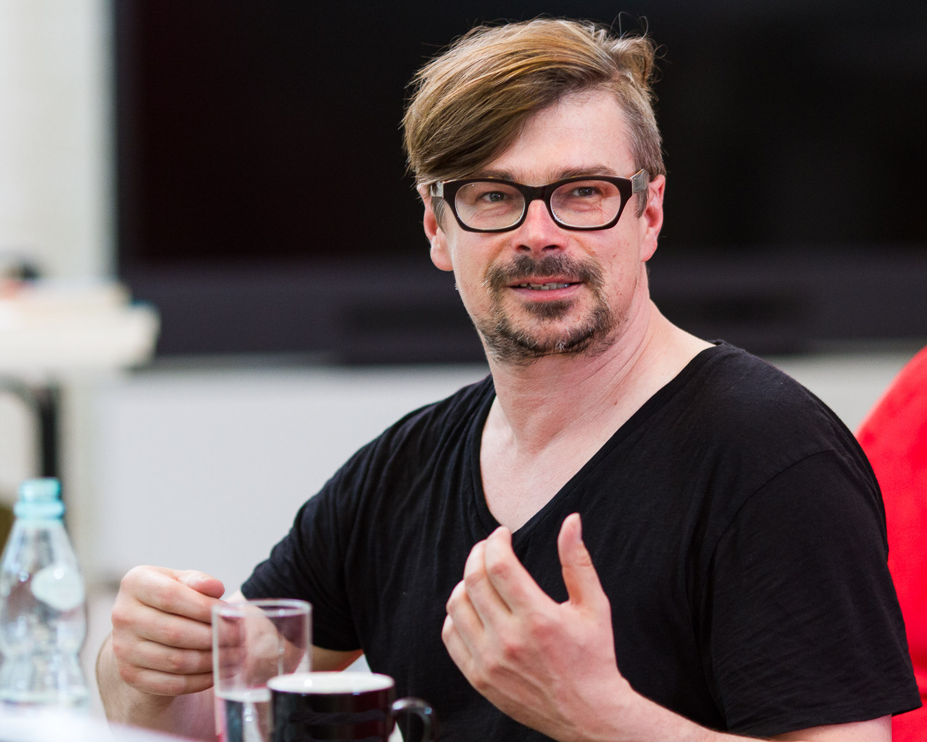 Jaroslav Rudiš on Authors’ Reading Month 2015, Wrocław, Poland